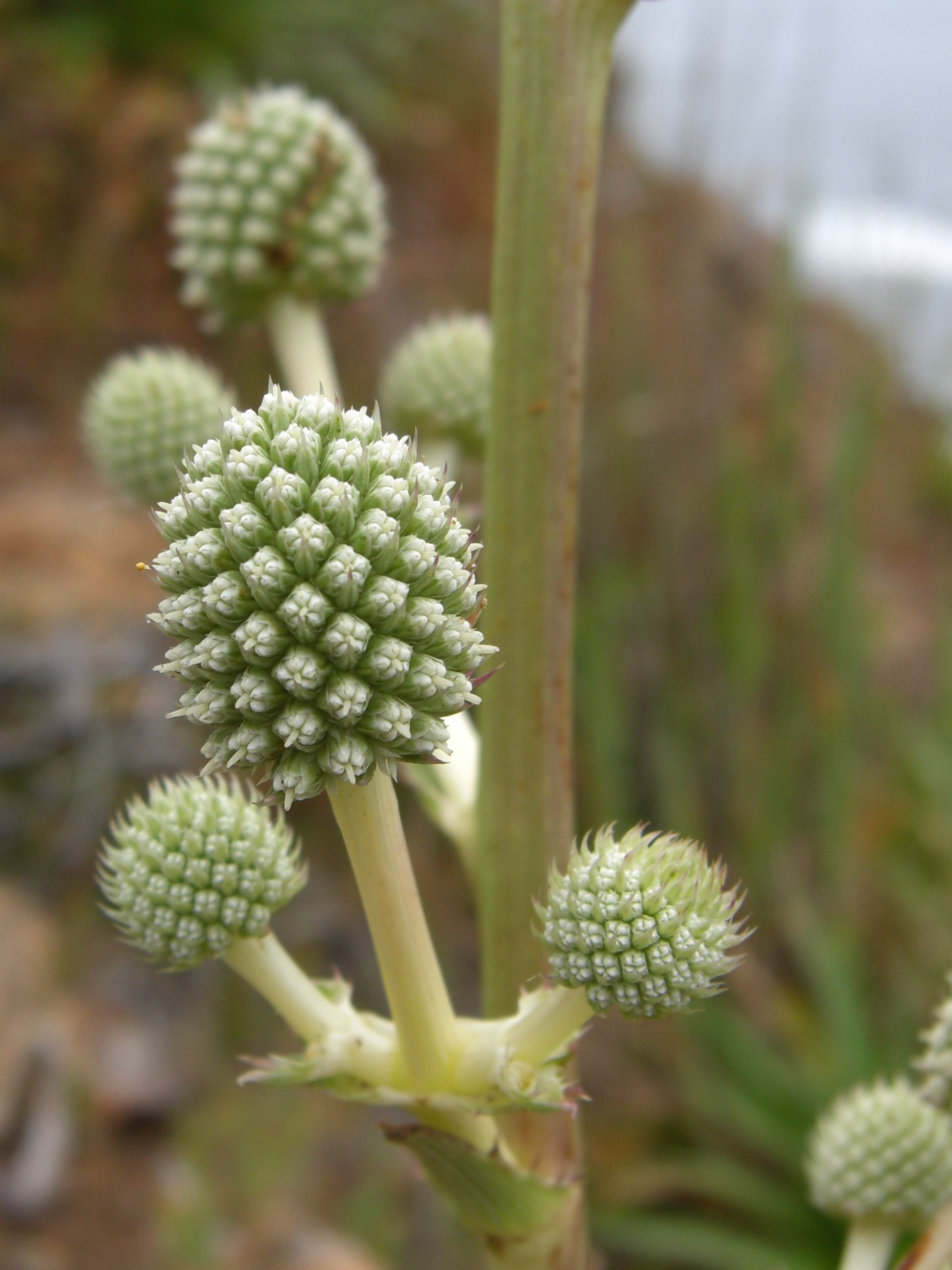 Eryngium paniculatum Cav. & Dombey ex. F.Delaroche 20081128.3 coast near Tirua, Chile